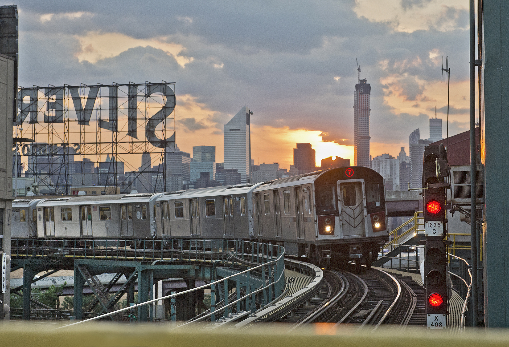 These are photos of new R-188 subway cars in use along the 7 line. July 25, 2014. Photo: Metropolitan Transportation Authority / Patrick Cashin